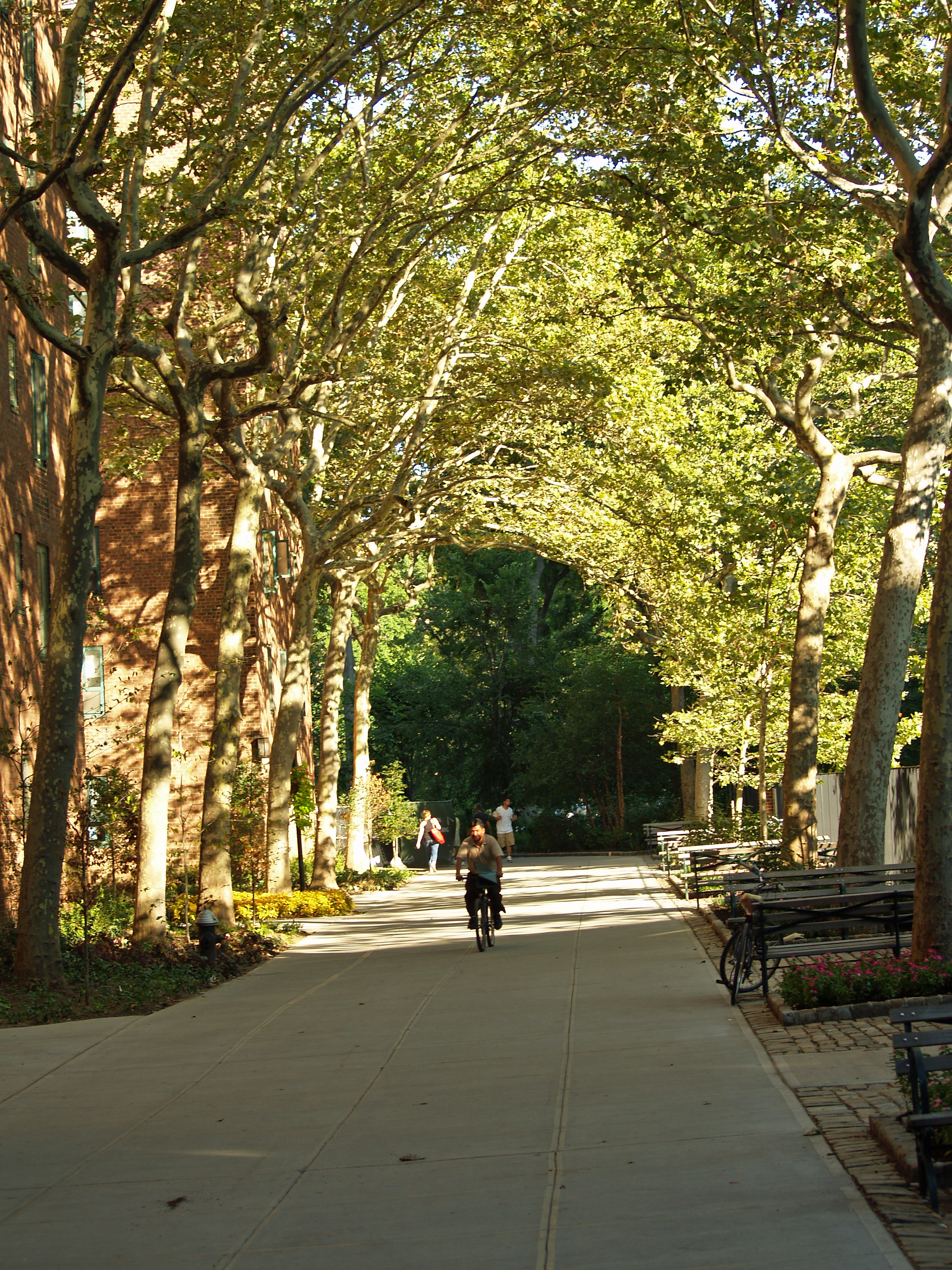 Stuyvesant Town path with trees glowing in the sun and a biker.